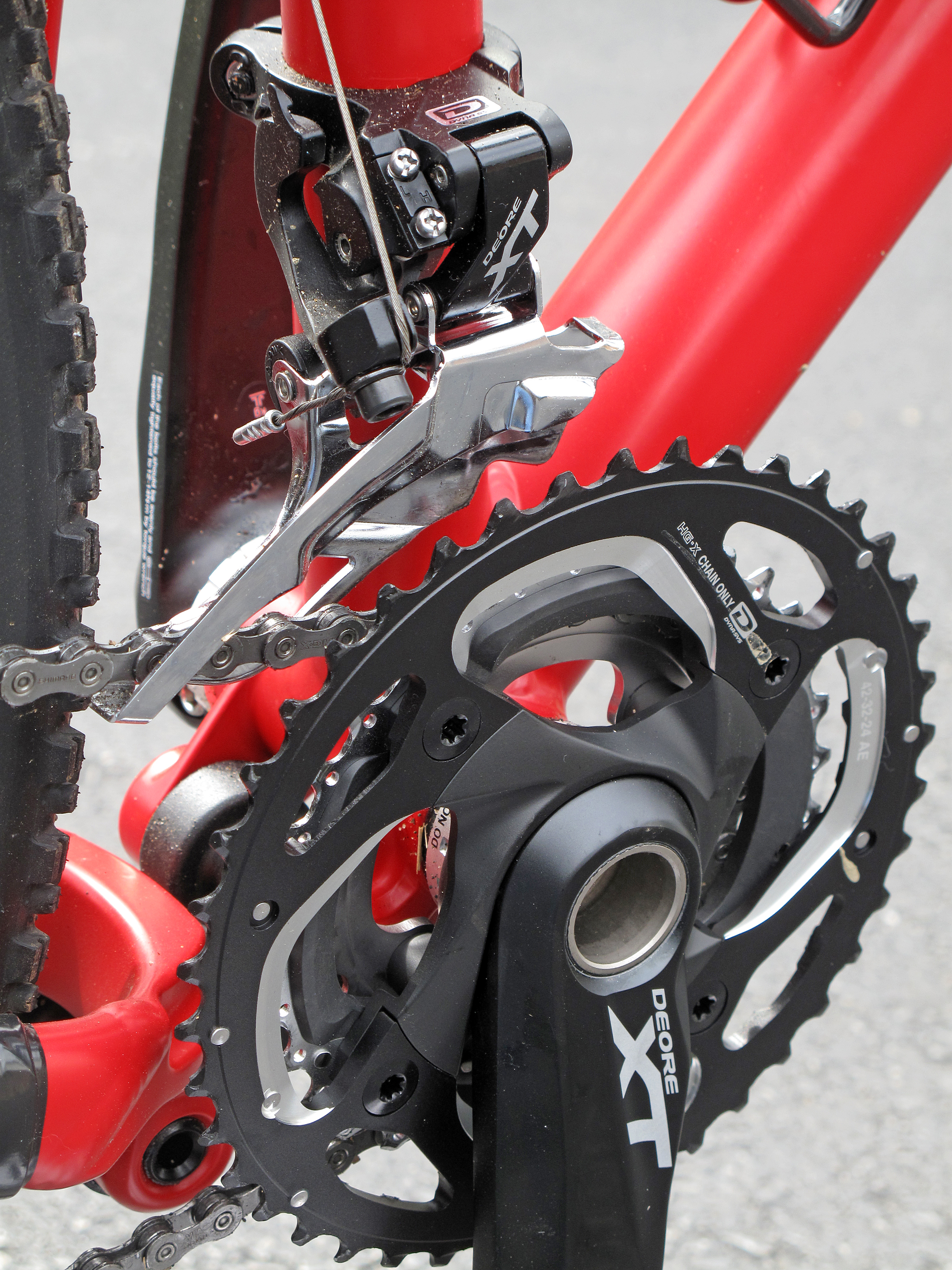 Front derailleur and crankset/chainset detail of a 2013 Santa Cruz Tallboy mountain bike.